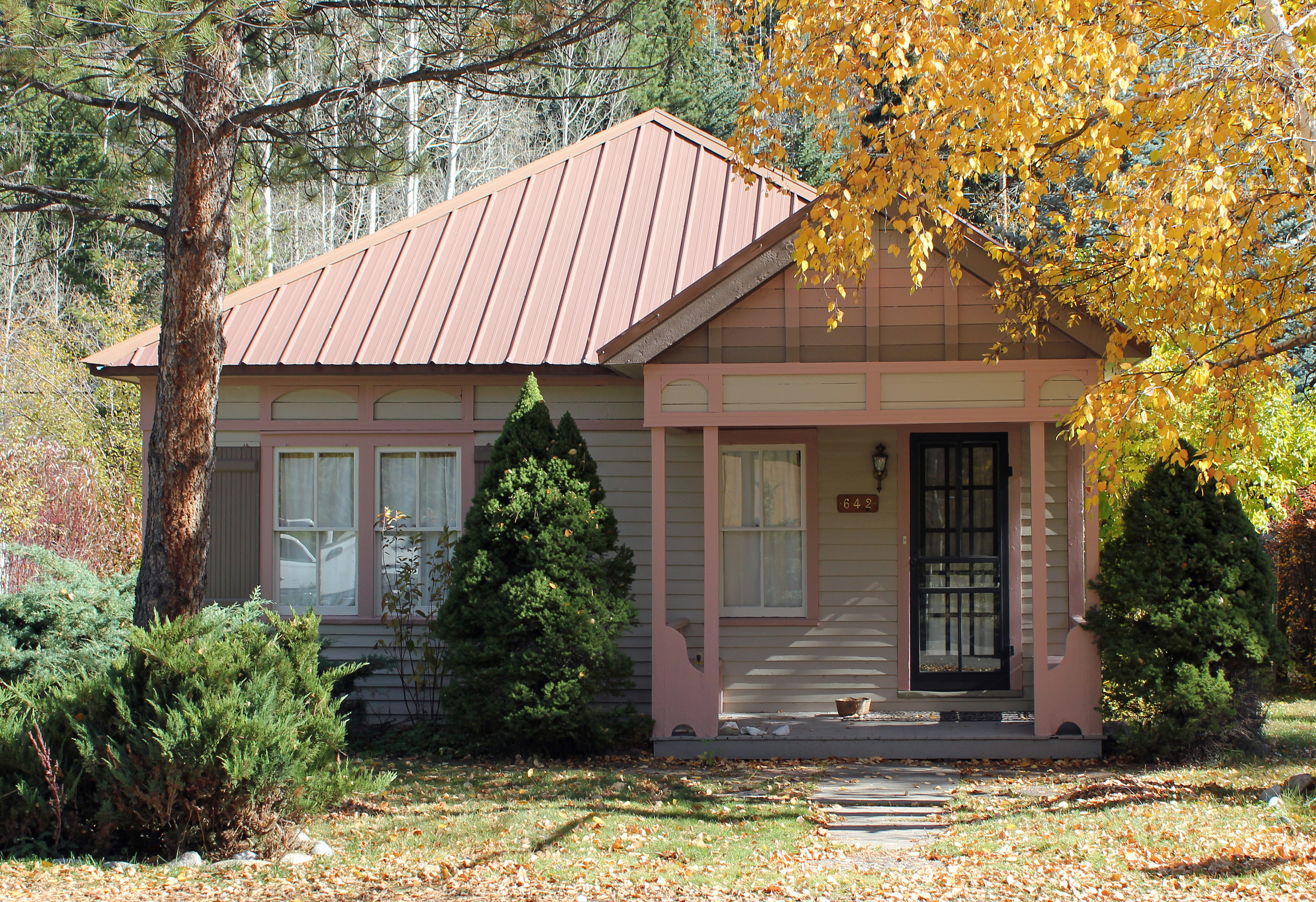 The Osgood-Kuhnhausen House, located at 0642 Redstone Boulevard in Redstone, Colorado. The house is listed on the National Register of Historic Places.